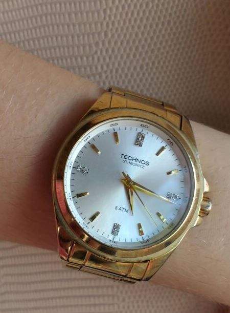 Technos watche.